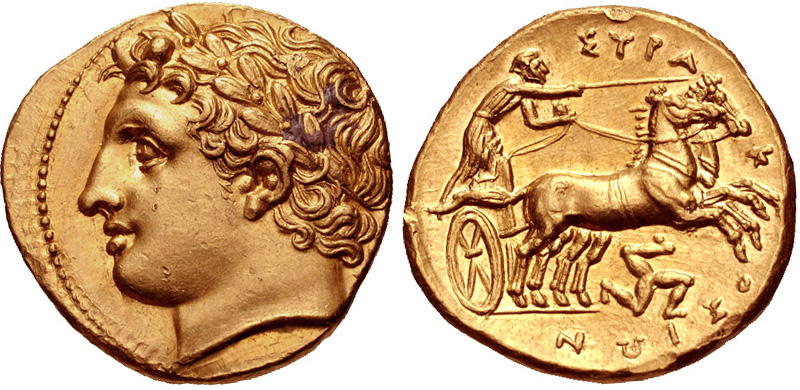 SICILY, Syracuse. Agathokles. 317-289 BC. AV Dekadrachm – 50 Litrai (16mm, 4.28 g, 6h). Struck circa 317-311 BC. Laureate head of Apollo left; [grain ear to right] / Charioteer driving biga right. Philippeios type.